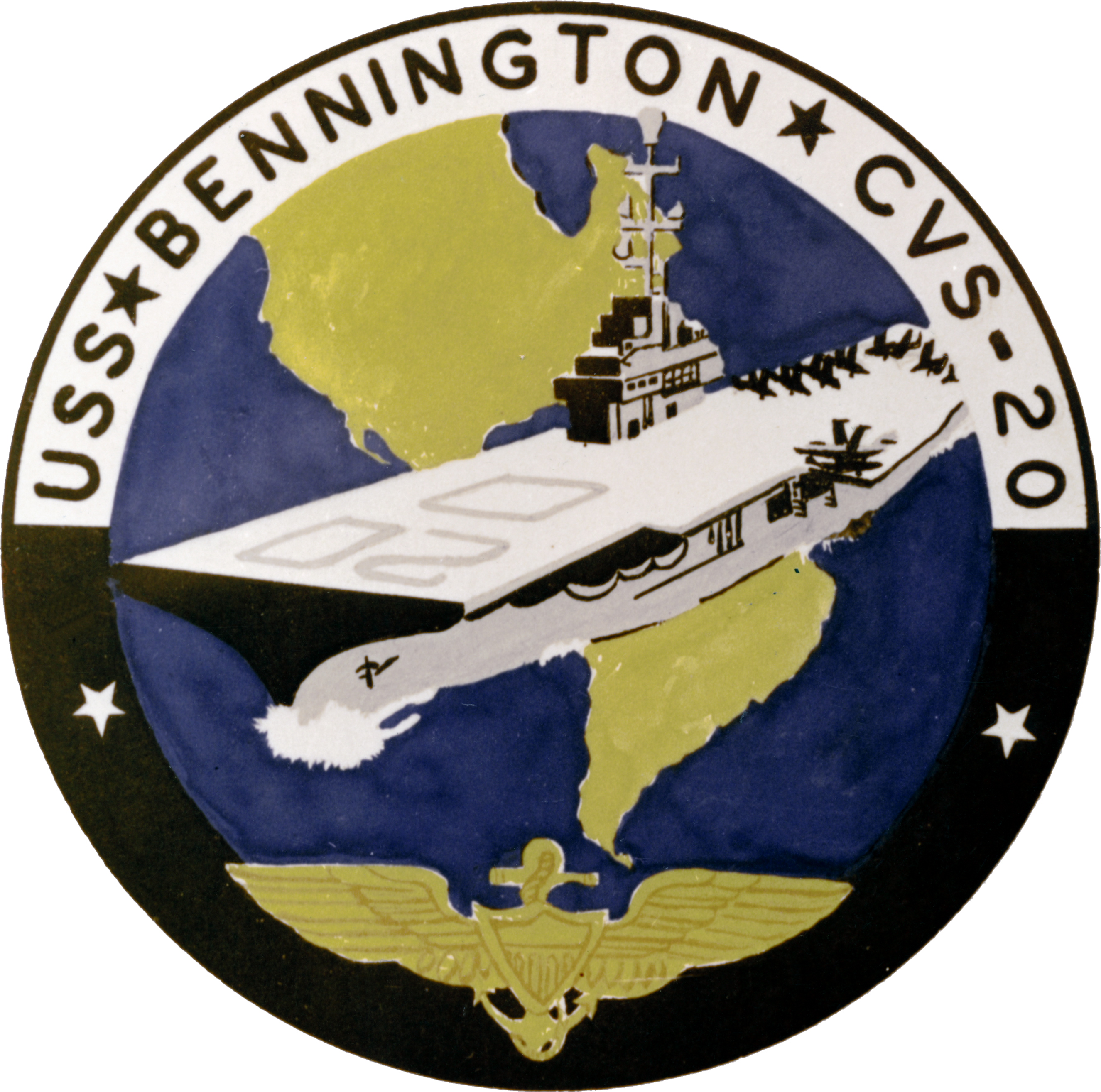 Ship's insignia of the United States Navy anti-submarine aircraft carrier USS "Bennington" (CVS-20), 1959.